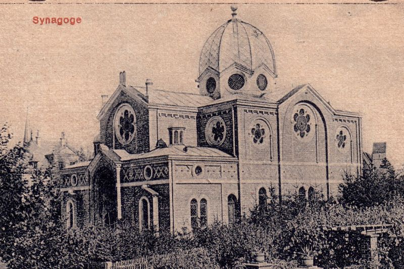 Synagogue of Göppingen, built in 1881, destroyed by the Nazis during the Cristal Night in 1938.